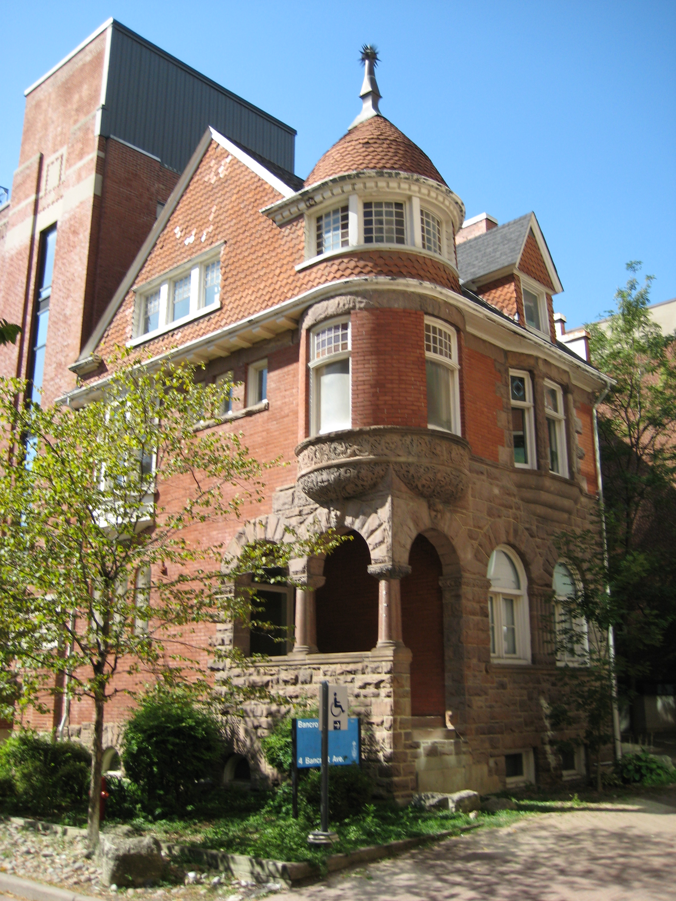 The University of Toronto's Robert Brown House at 4 Bancroft Avenue in Toronto. The building is an example of an 'Annex style house', an architectural style that is common in the Annex neighbourhood of Toronto. Robert Brown House (completed 1890)